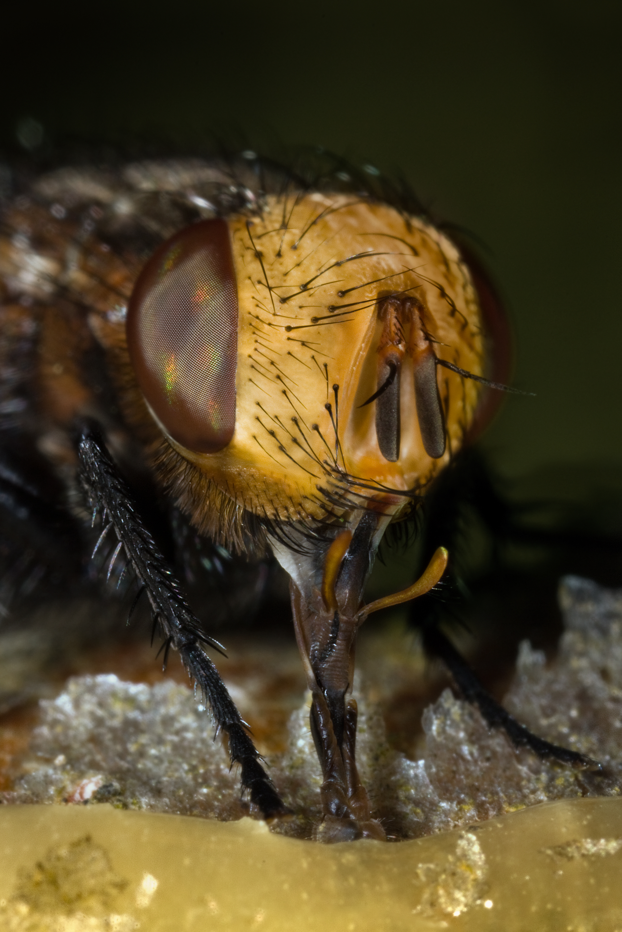 Tachina fly (Gonia capitata).Tachinidae is a large and rather variable family of true flies within the insect order Diptera, with more than 8,200 known species and many more to be discovered.